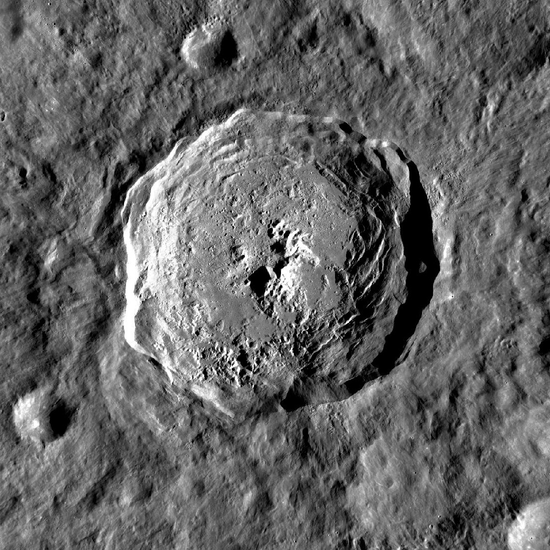 LRO image of Jackson crater, on the far side of the moon, from the Wide Angle Camera (WAC).